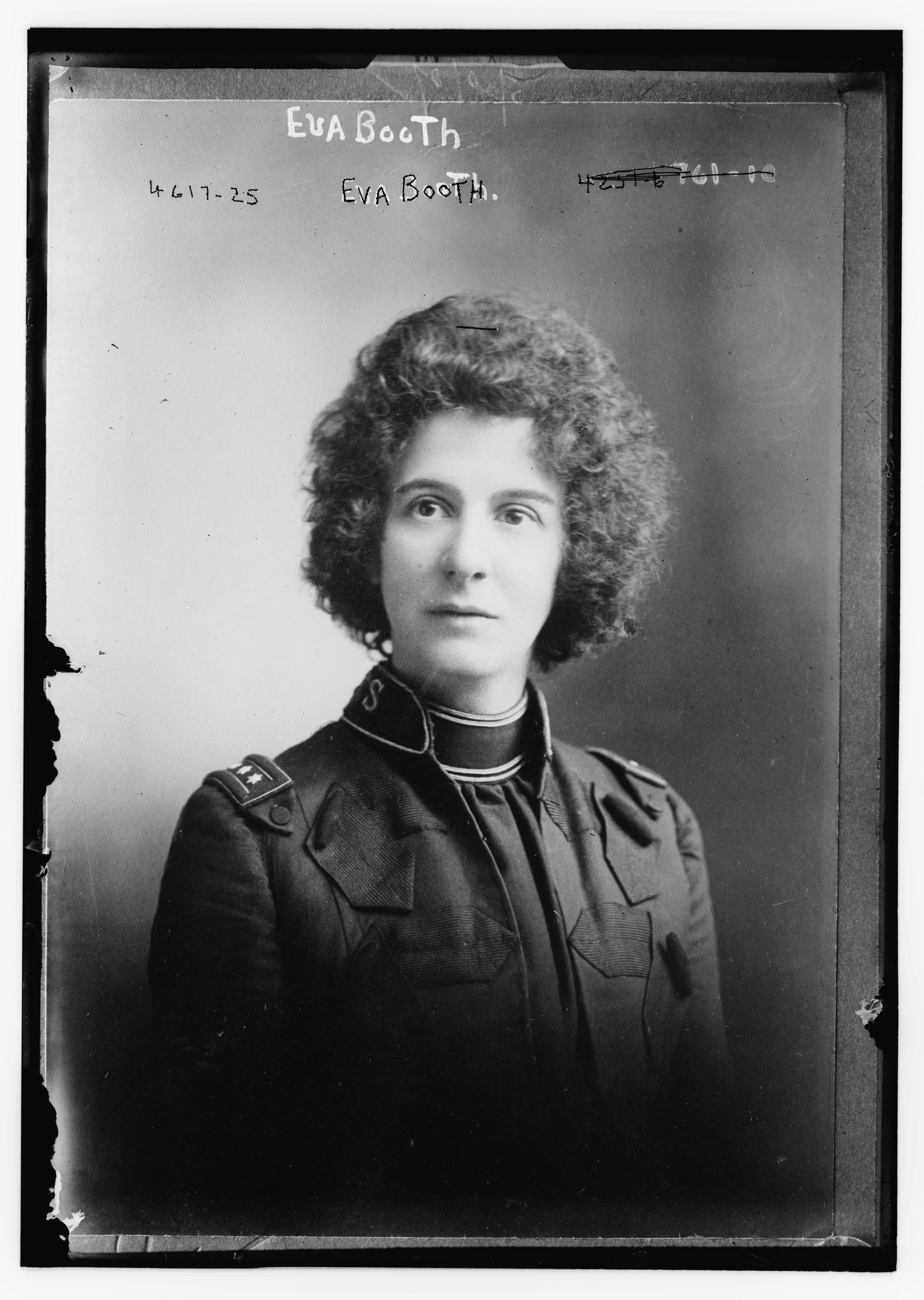 Evangeline Cory Booth in 1907